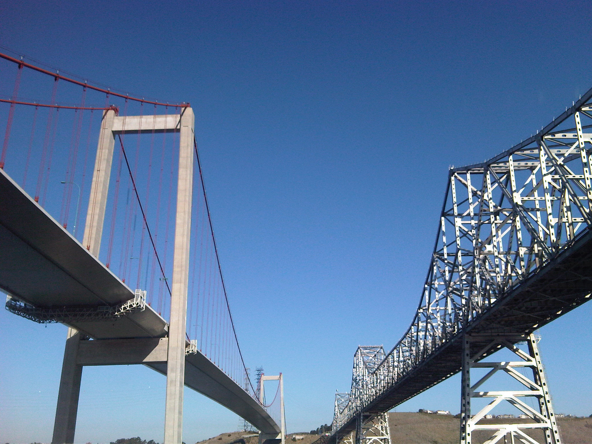 Carquinez Bridges cross the Carquinez Strait linking Vallejo to the north, with Crockett to the south in California